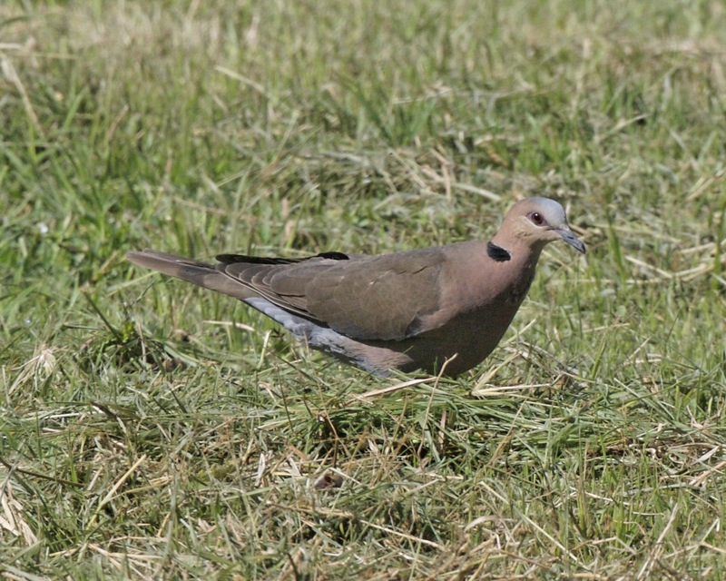 African Mourning Dove (Streptopelia decipiens). Ring-necked?